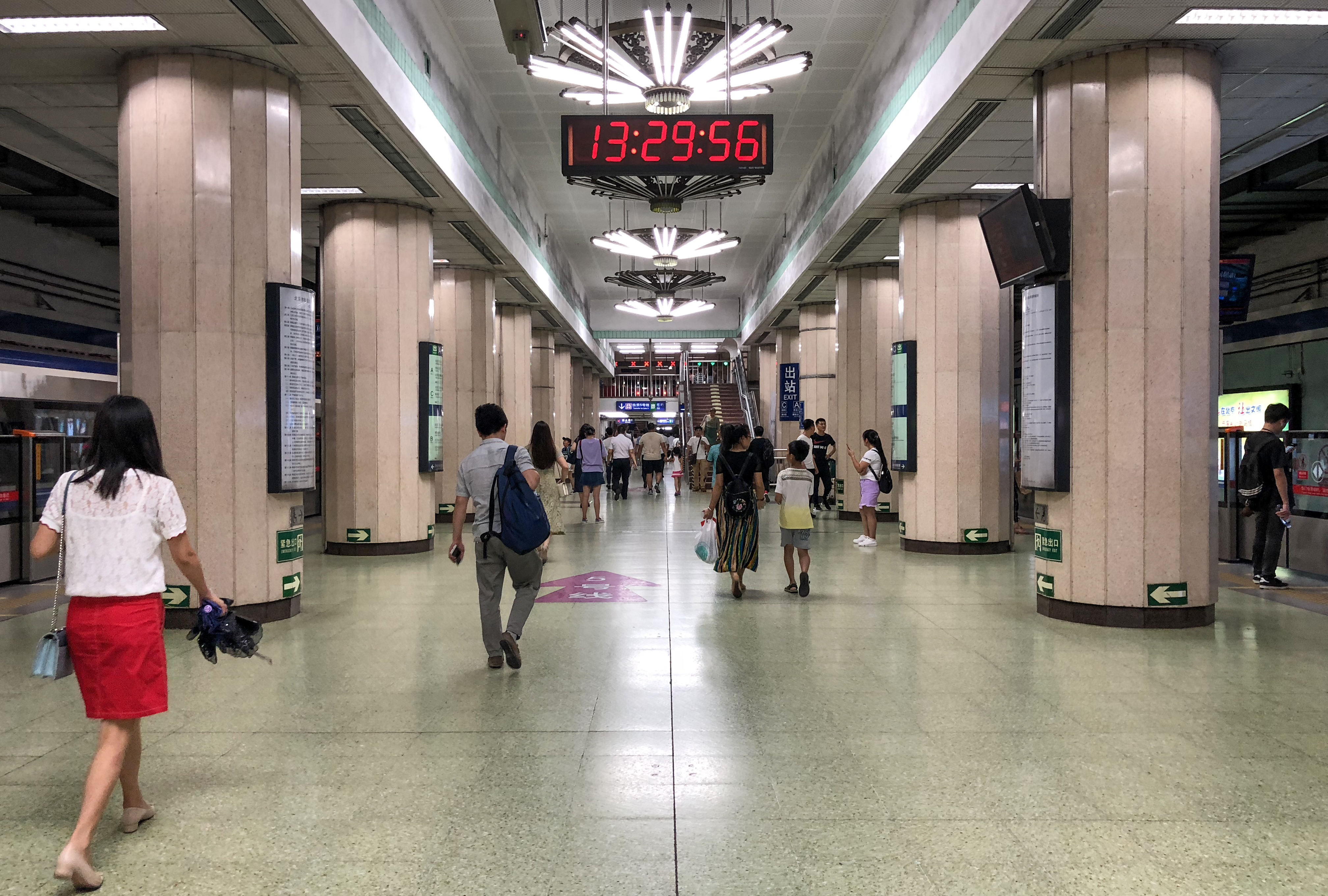 EXIF time discrepancy...